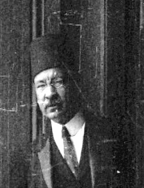 Abdel Khaliq Sarwat Pasha. Prime Minister of Egypt. Died in 1928.